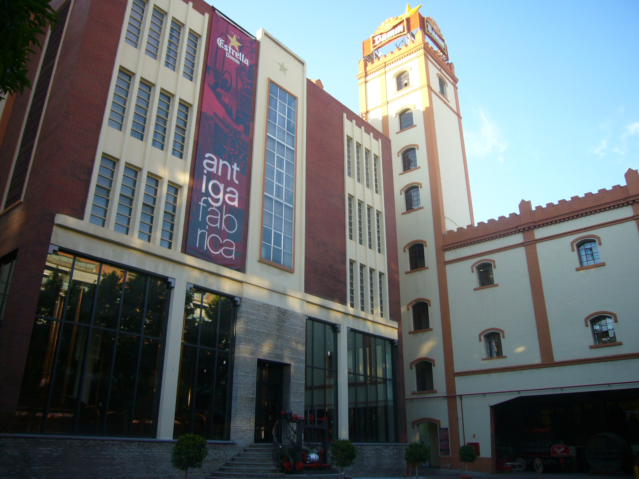 Damm factory in Barcelona, view from Roselló street.